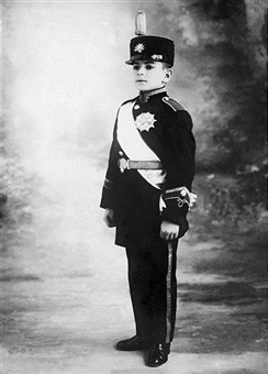 A portrait of Crown Prince Mohammad Reza Pahlavi in 1930